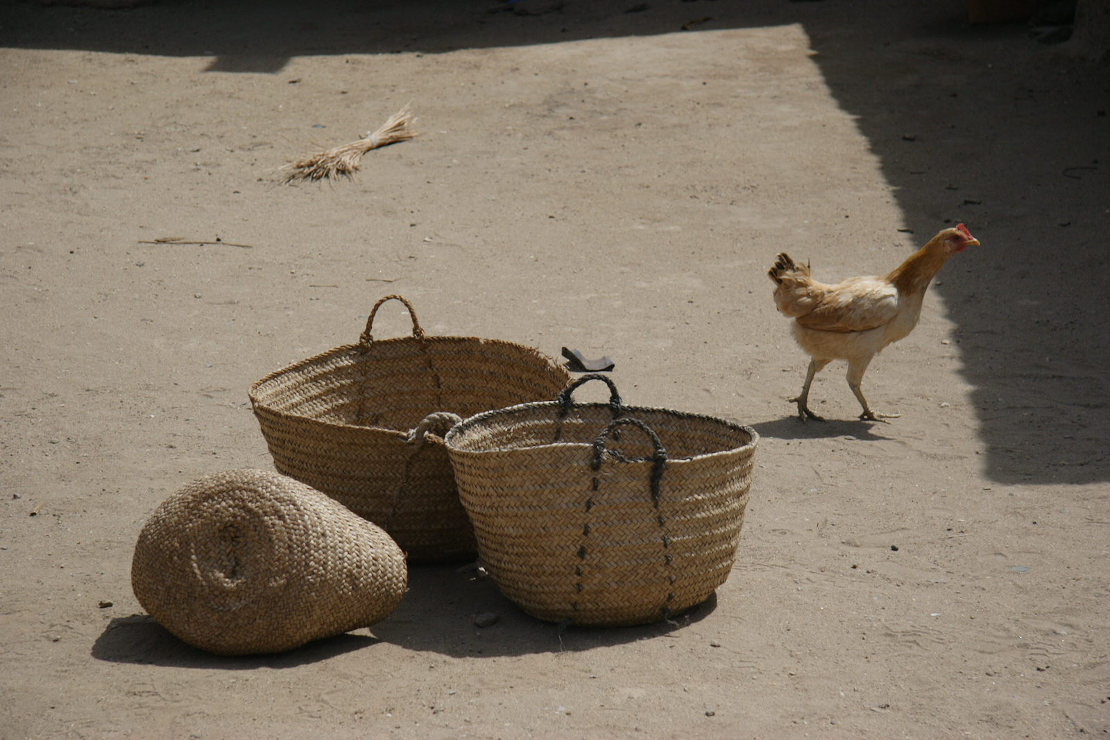 Most common baskets among the Manasir are the Quffah (biggest), Kunshibr and the Ghutaiah (smallest). Dar al-Manasir - northern Sudan.